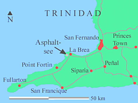 German map of the southwestern part of Trinidad: Pitch Lake